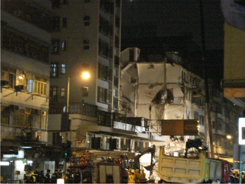 The collapsed building was along Ma Tau Wai Road. The surrounding buildings might be affected.